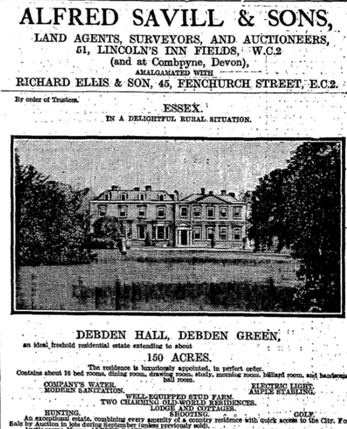 Advertisement for Debden Hall, Laughton, 1920